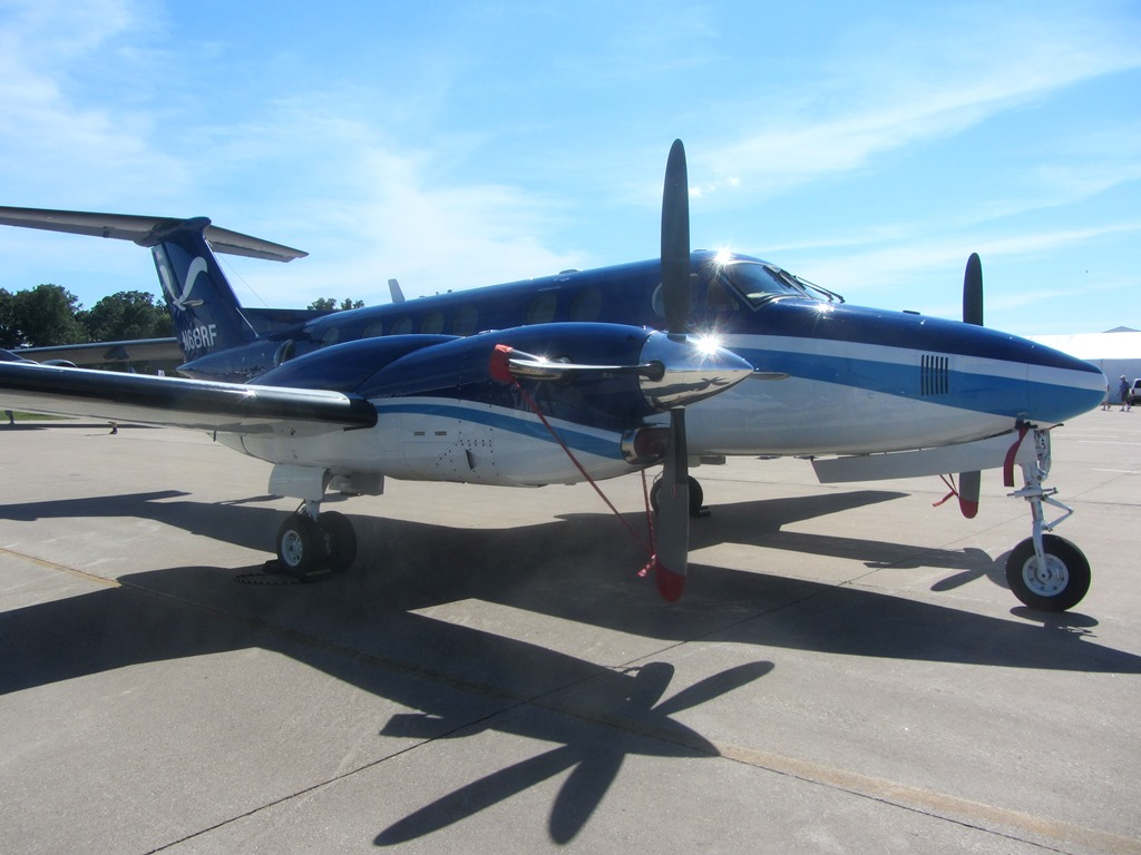 NOAA Beechcraft King Air